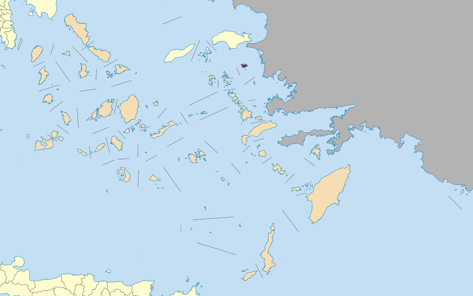 Locator map for Agathonisi municipality in Greek region South Aegean (2011)